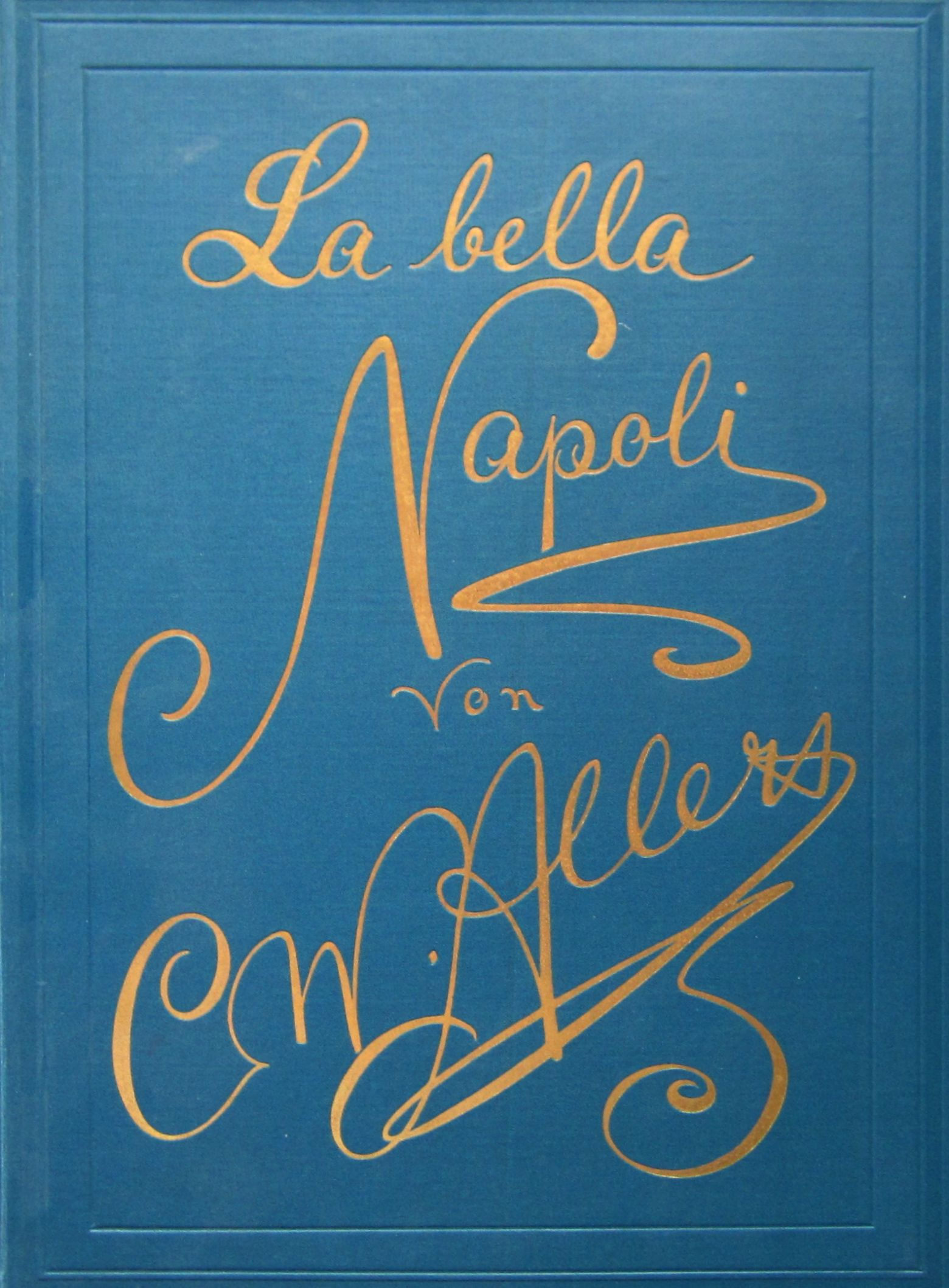 Cover of book "La bella Napoli"